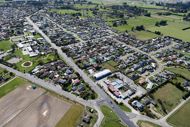 Woodend - SH1 and Rangiora Woodend Road.